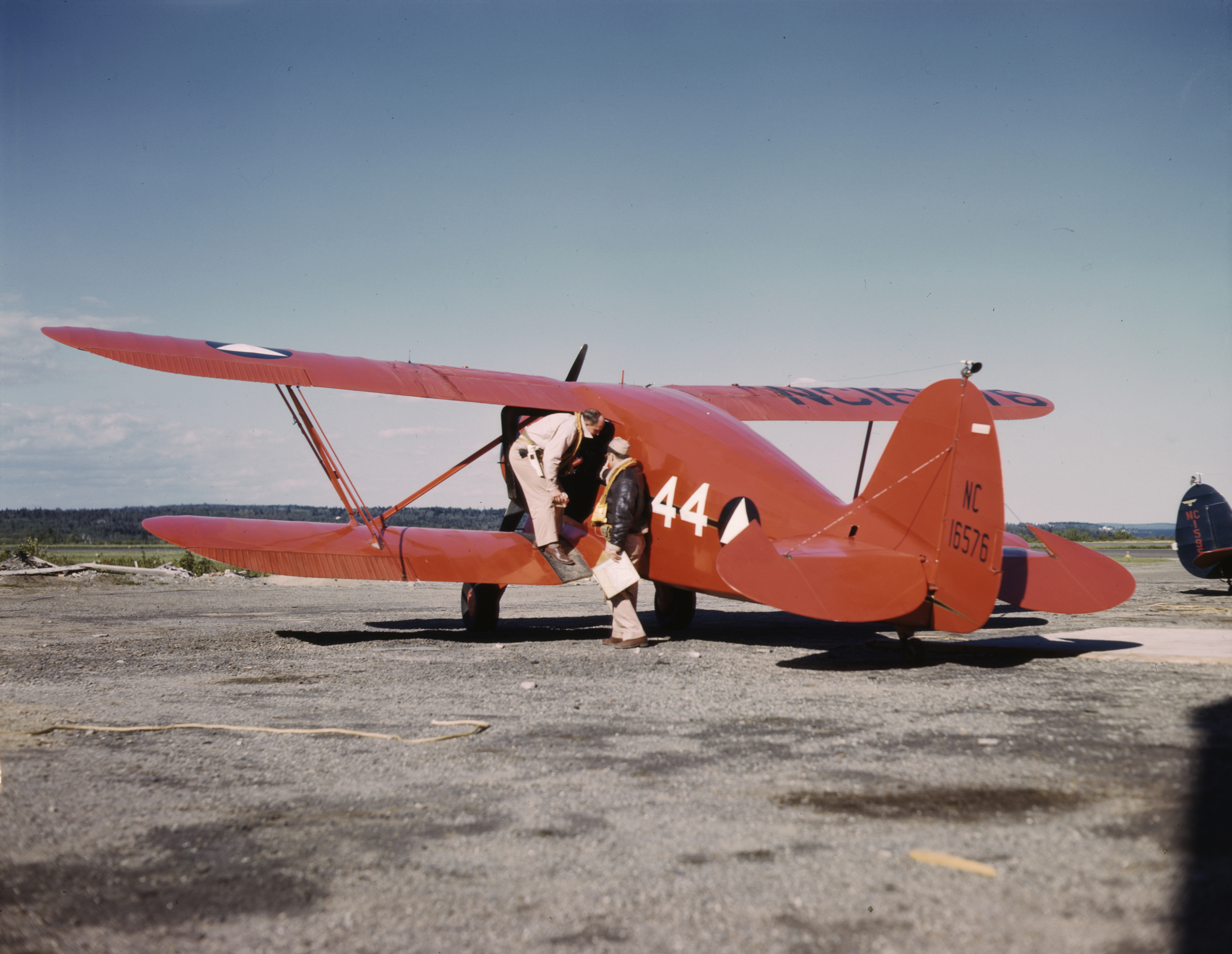 Civil Air Patrol, Coastal Patrol base #20, Bar Harbor, Maine. A 1936 Waco YKS-6 NC16576 bi-plane on the tarmac. Title from FSA or OWI agency caption. Transfer from U.S. Office of War Information, 1944. Repository: Library of Congress, Prints and Photographs Division, Washington, D.C. 20540 USA Part Of: Farm Security Administration - Office of War Information Collection 12002-46 (DLC) 93845501 Persistent URL: Call Number: LC-USW36-778